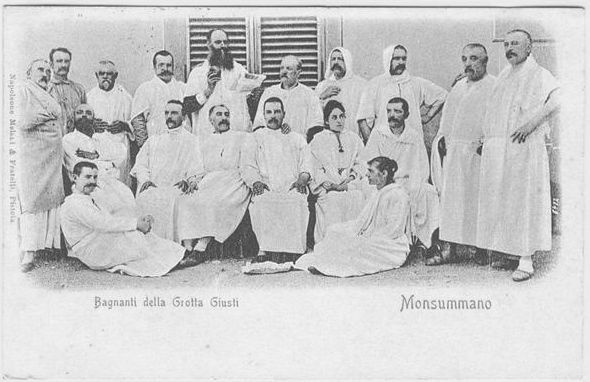 Bagnanti